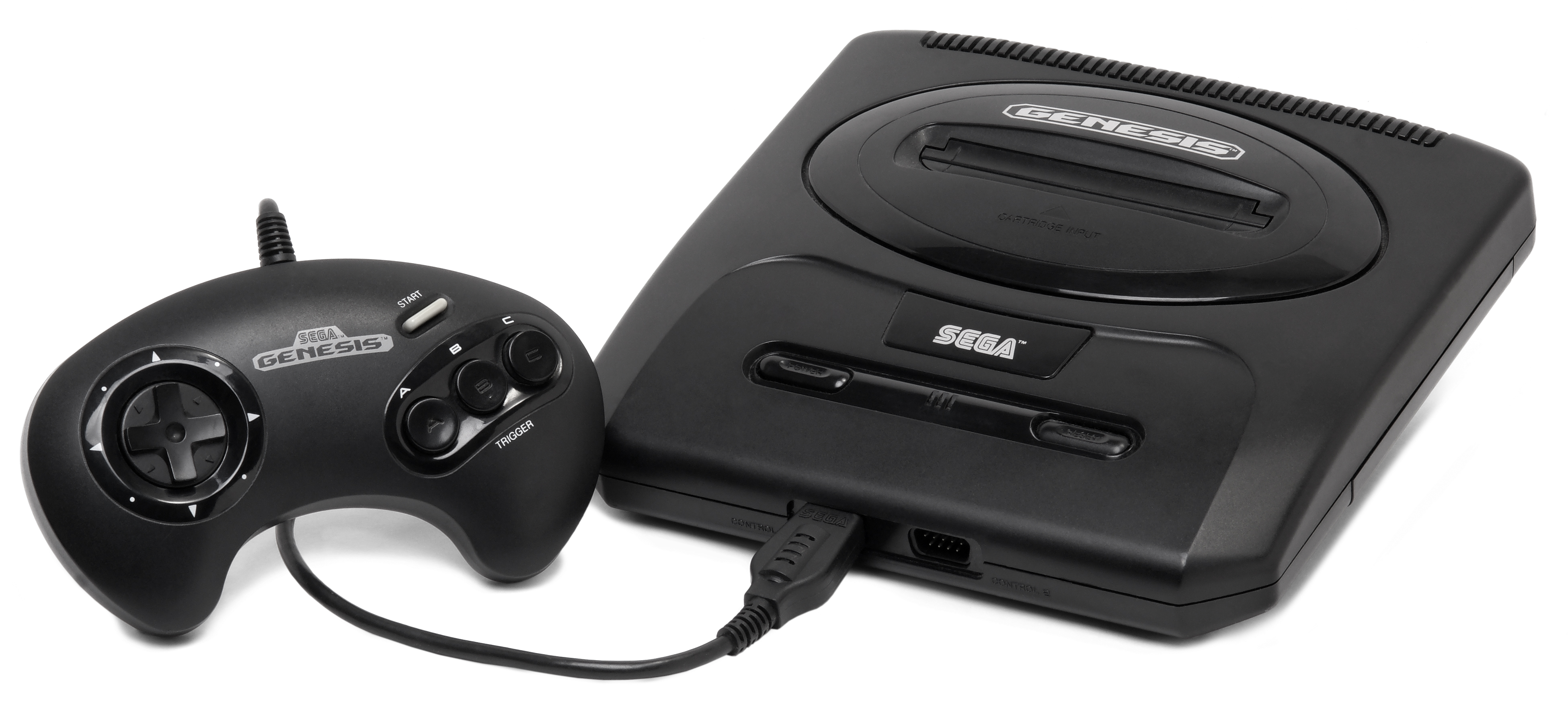 A model 2 Sega Genesis, shown with 3-button controller. This is the JPG version.